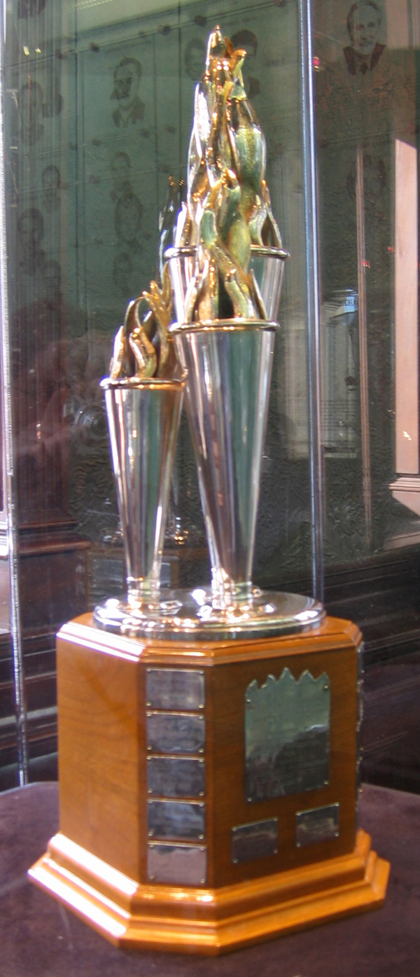 Bill Masterton Memorial Trophy on display at the Hockey Hall of Fame in Toronto. The trophy is awarded annually to the NHL player that best demonstrates perseverance, sportsmanship, and dedication to hockey. Taken by Kmf164 on November 19, 2005.